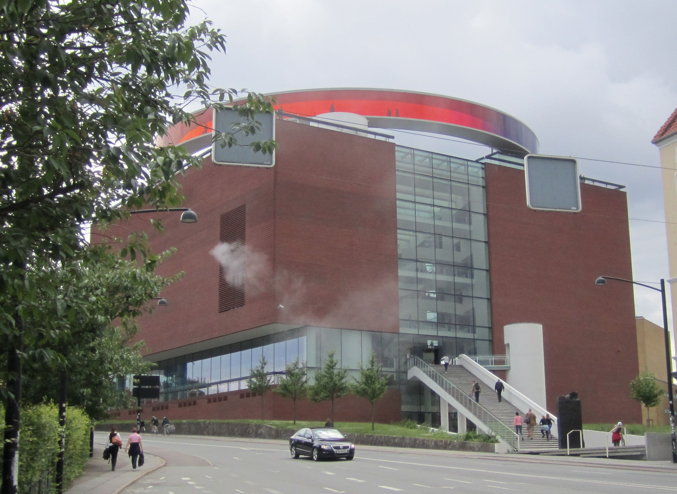 ARoS Aarhus Kunstmuseum